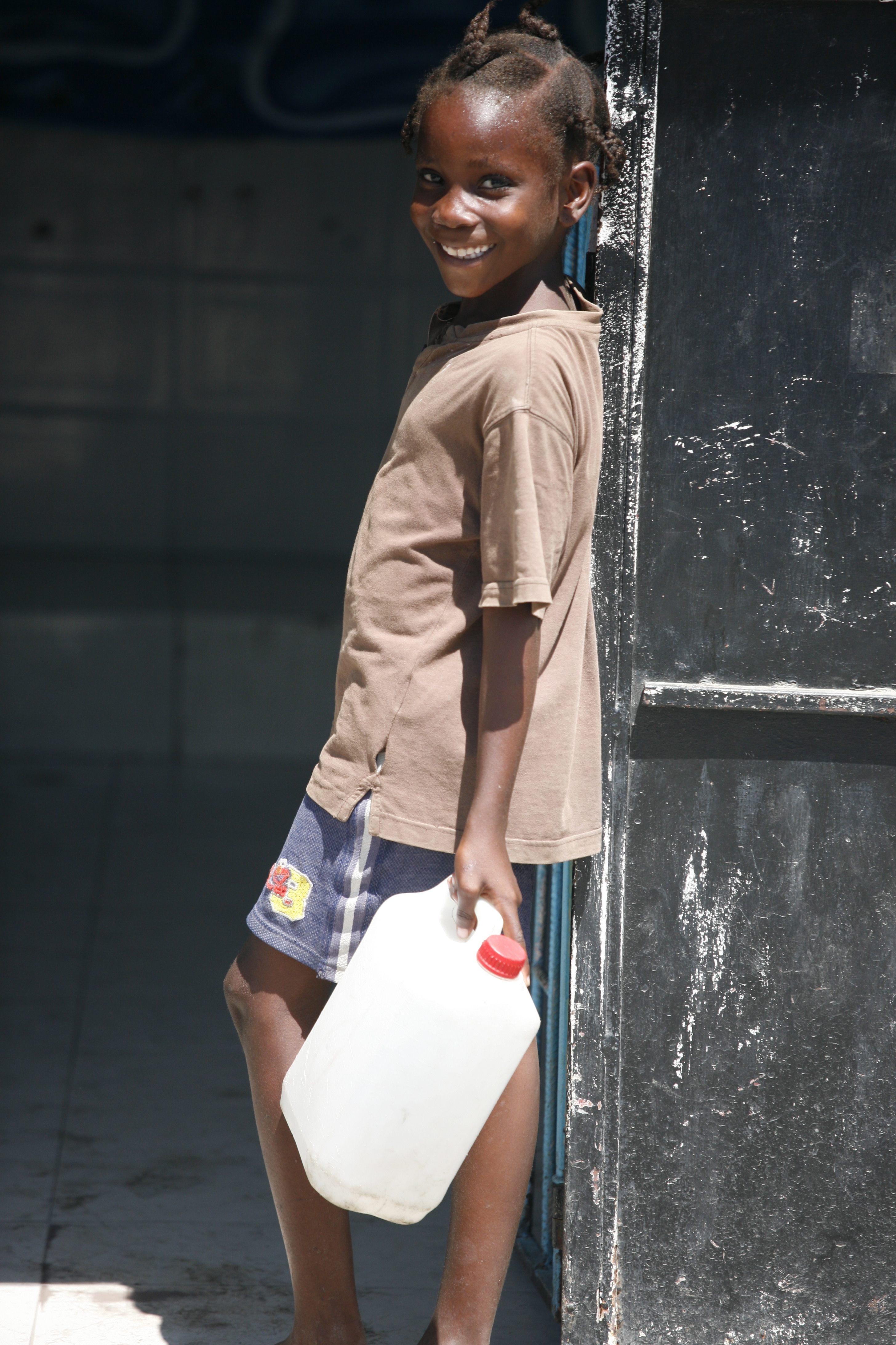 Collecting Water